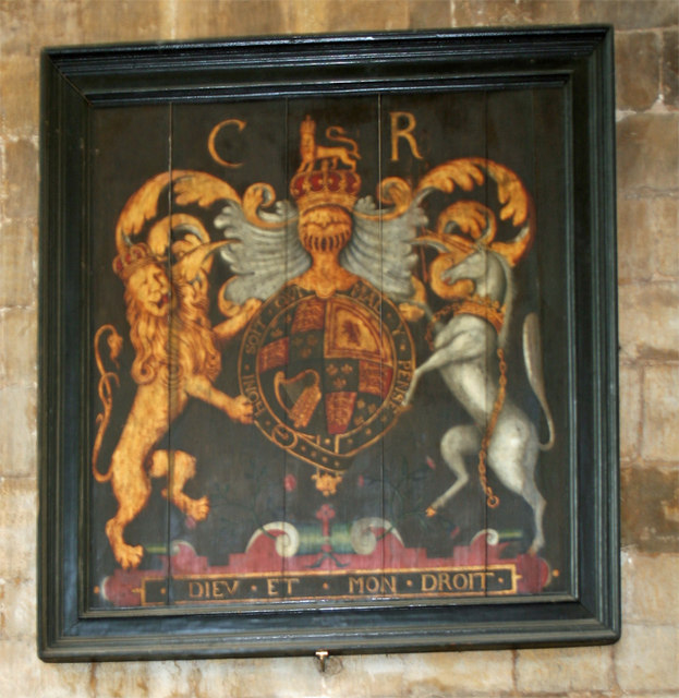 Beverley Minster, Beverley, East Riding of Yorkshire, England.Royal Coat of Arms. These are the arms of King Charles II.